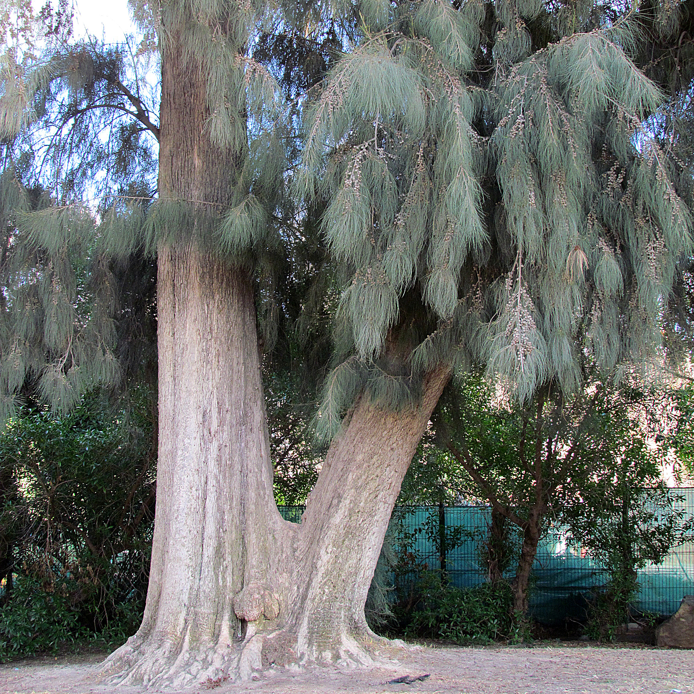 Casuarina cunninghamianа bark and twigs, Parc de la Ciutadella, Barcelona